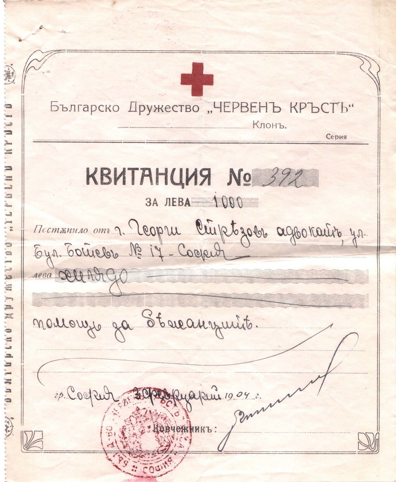 Georgi Strezov's Red Cross Receipt